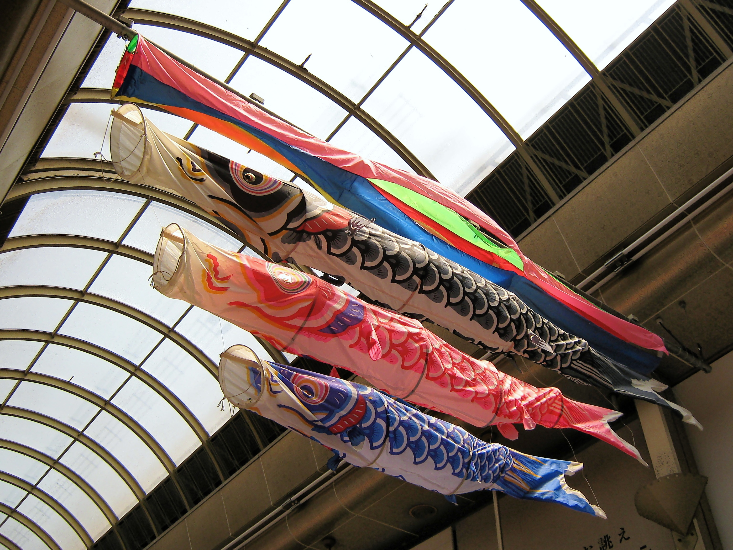 In Apr/May 2009, I took 15 days to walk all the way from Tokyo to Kyoto, roughly following the 546km long, ancient highway, the Nakasendo, alone. This picture was taken during the free week I had in Japan after the walk. Read about my preparations and my time in Japan at .